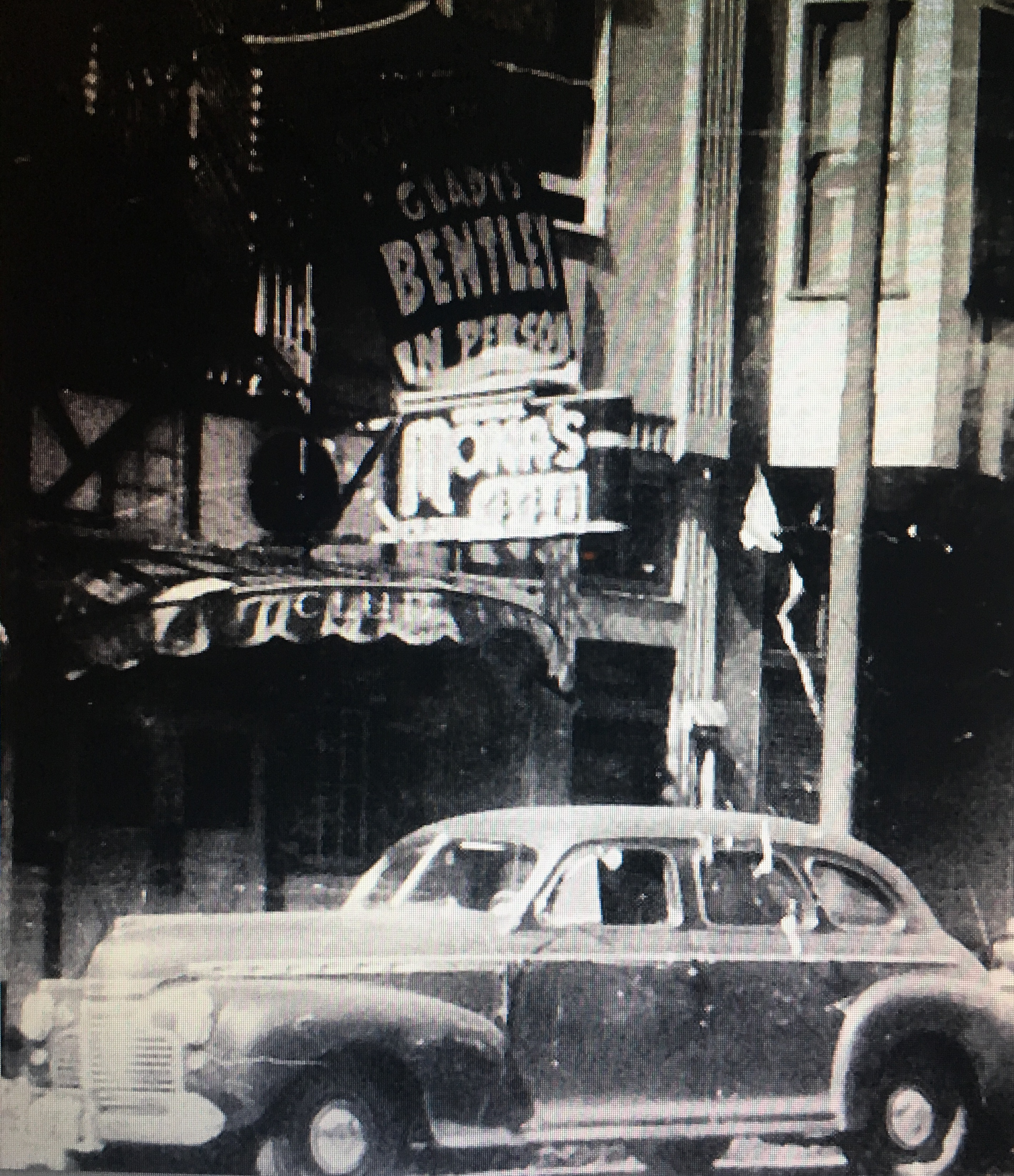 Mona